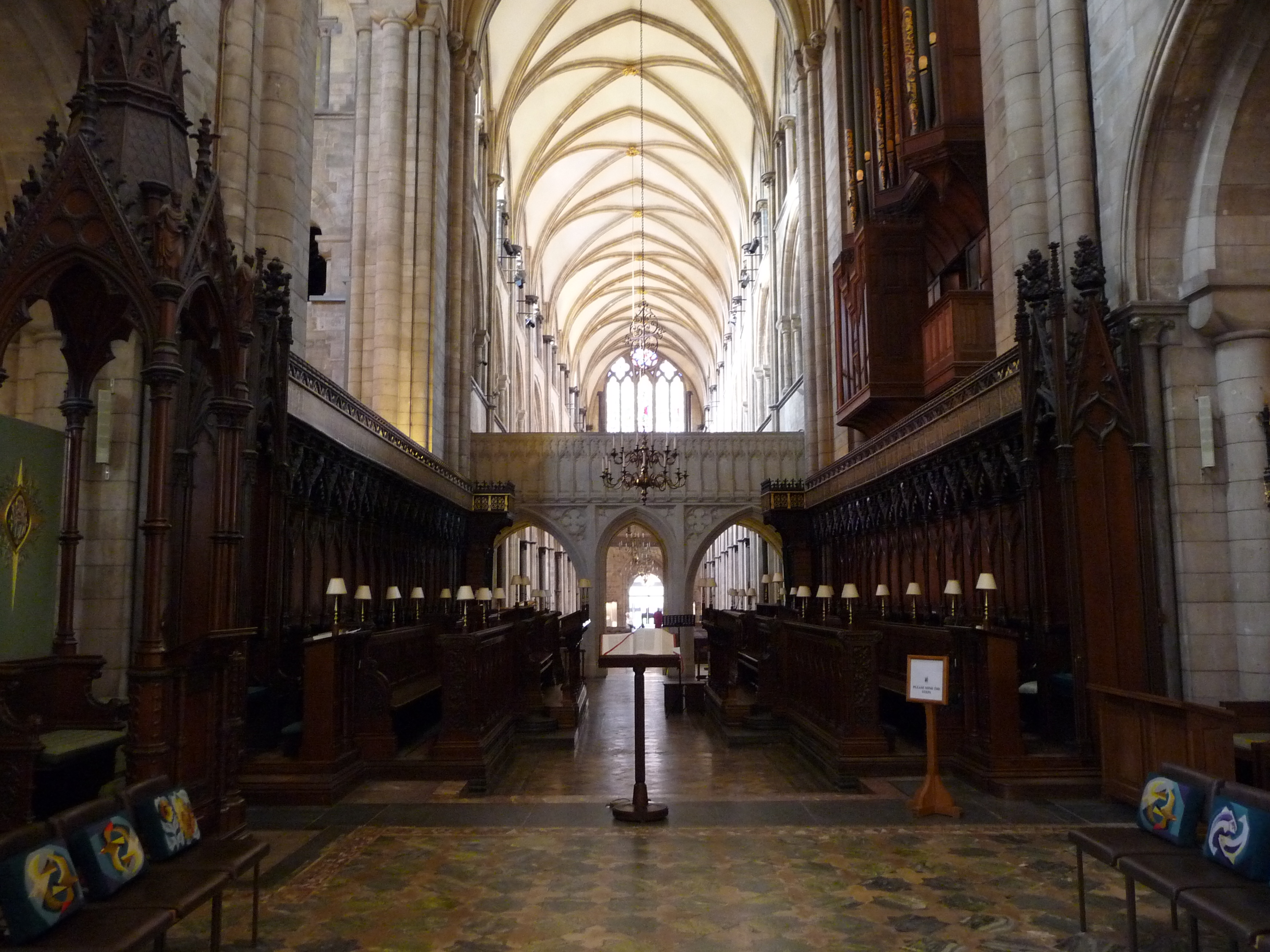 The nave of Chichester Cathedral looking west from the high altar.